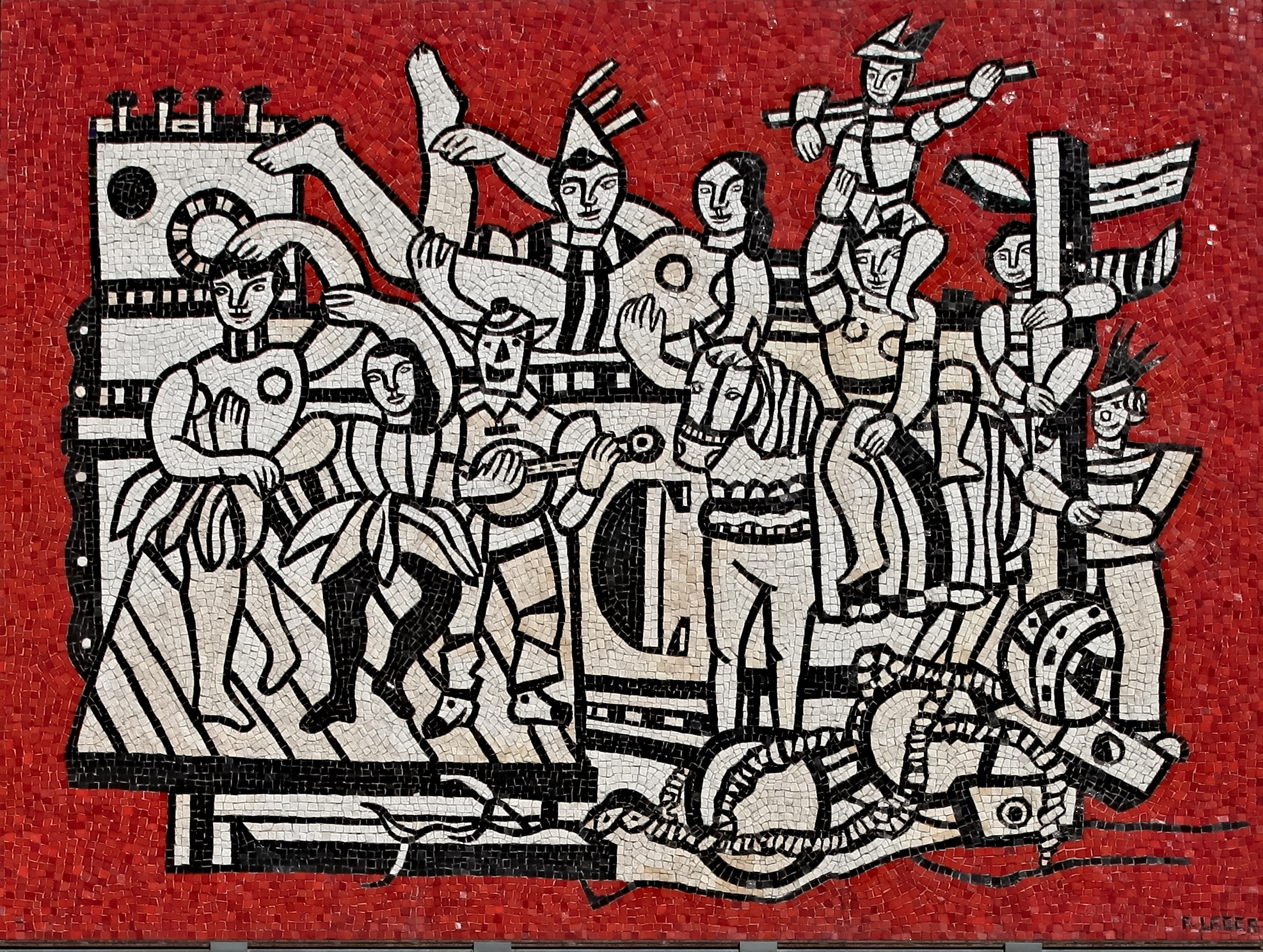 Fernand Léger - Grand parade with red background, mosaic 1958 (designed 1953). Presented through the National Gallery of Victoria NGV Foundation by Loti Smorgon AO, Honorary Life Benefactor, 2000 © Fernand Leger/ADAGP, Paris. Licensed by VISCOPY, Australia